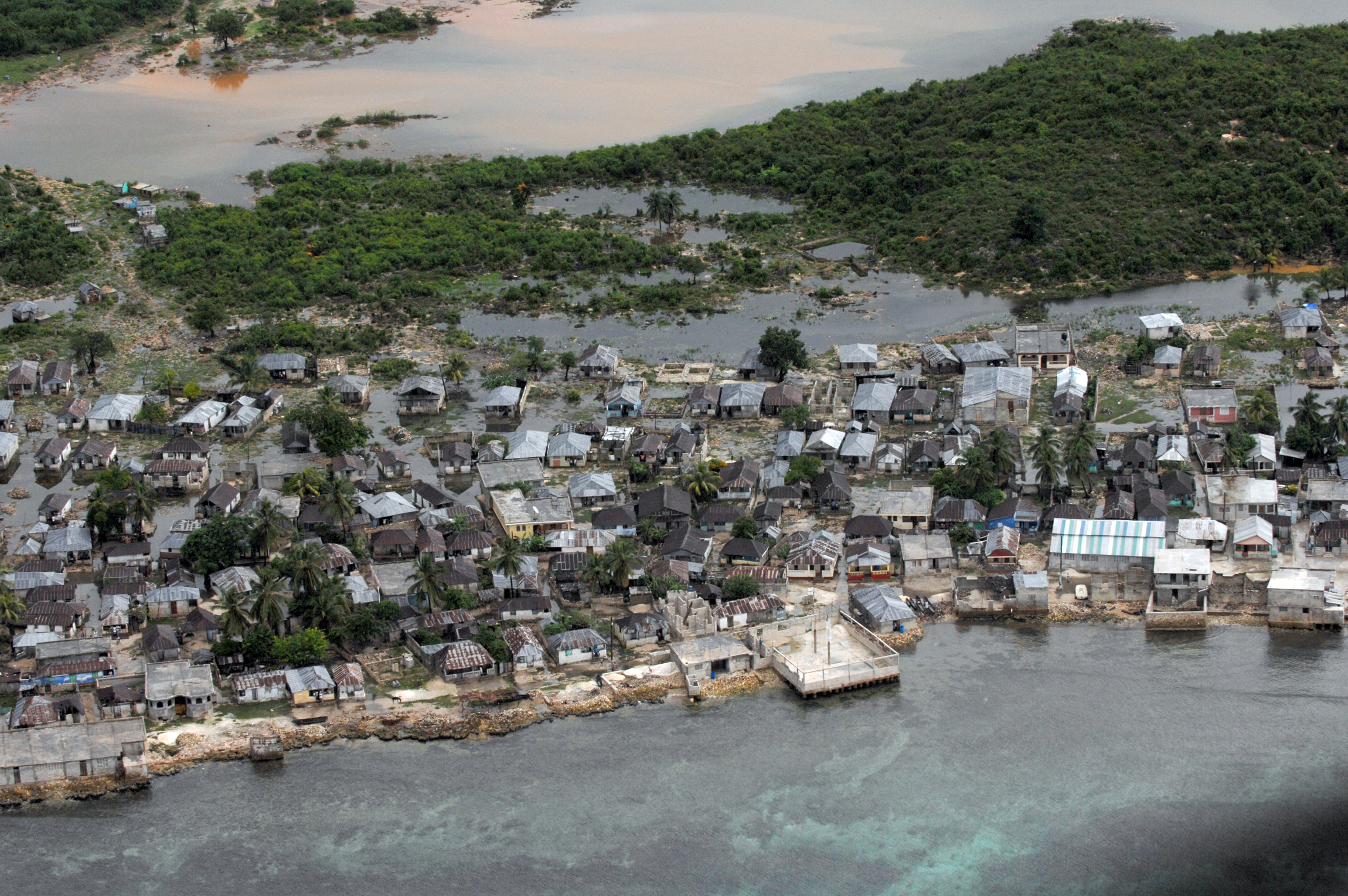 PORT-AU-PRINCE, Haiti (Sept. 8, 2008) An aerial view of the Haitian coastline after the area has been struck by four tropical systems this hurricane season. The amphibious assault ship USS Kearsarge (LHD 3) has been diverted from the scheduled Continuing Promise 2008 humanitarian assistance deployment in the western Caribbean to conduct hurricane relief operations in Haiti. (U.S. Navy photo by Mass Communication Specialist 2nd Class Gina Wollman/Released)